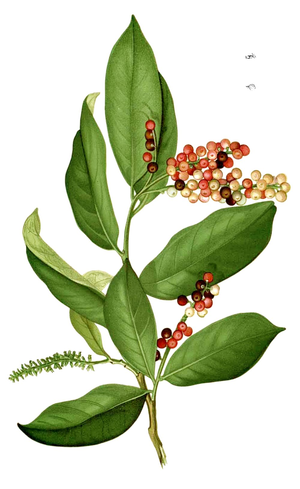 Plate from book